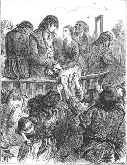 A Tale of Two Cities, The Third Tumbril, Sydney Carton and the innocent seamstress being taken to the guillotine, by Fred Barnard.